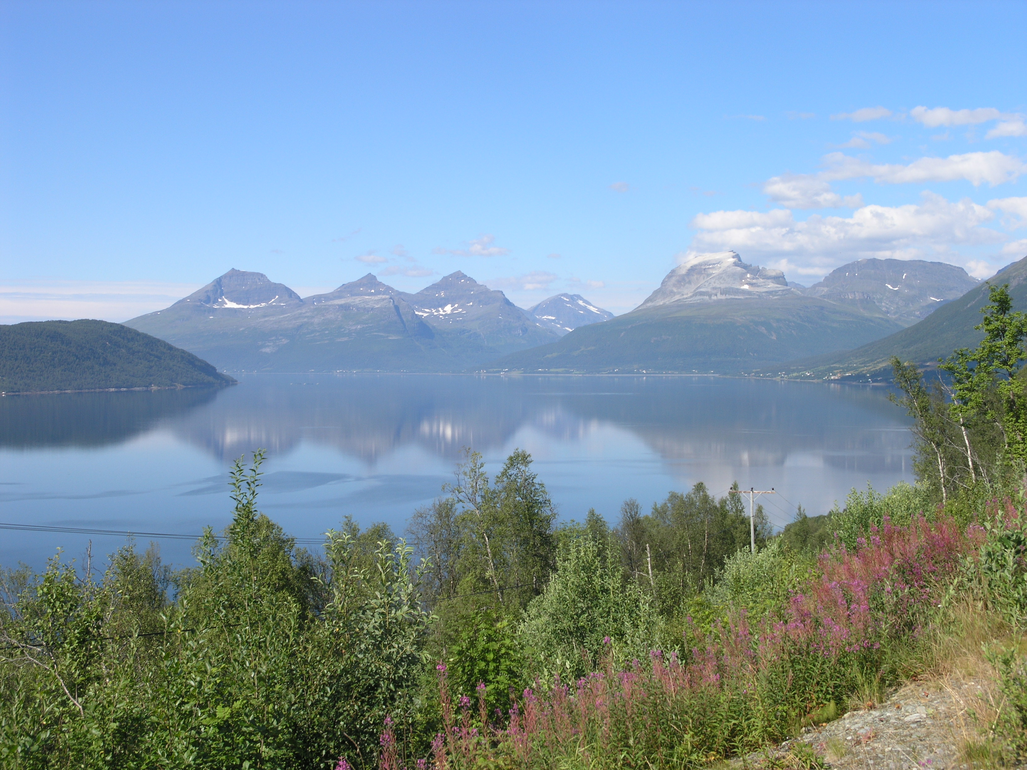 View above Balsfjord near Tromsö